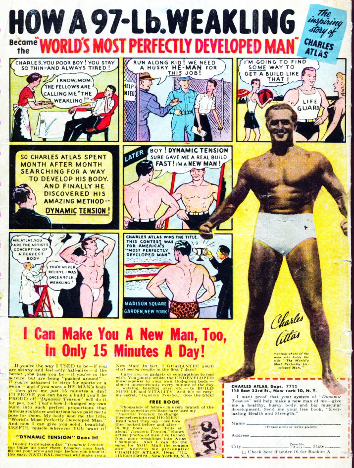 The Black Terror #12, Page 36 November, 1945